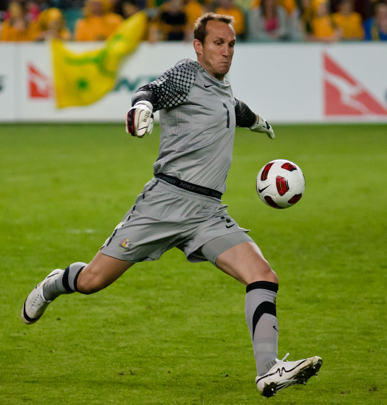 Mark Schwarzer representing the Australian national football team against Paraguay at the Sydney Football Stadium.